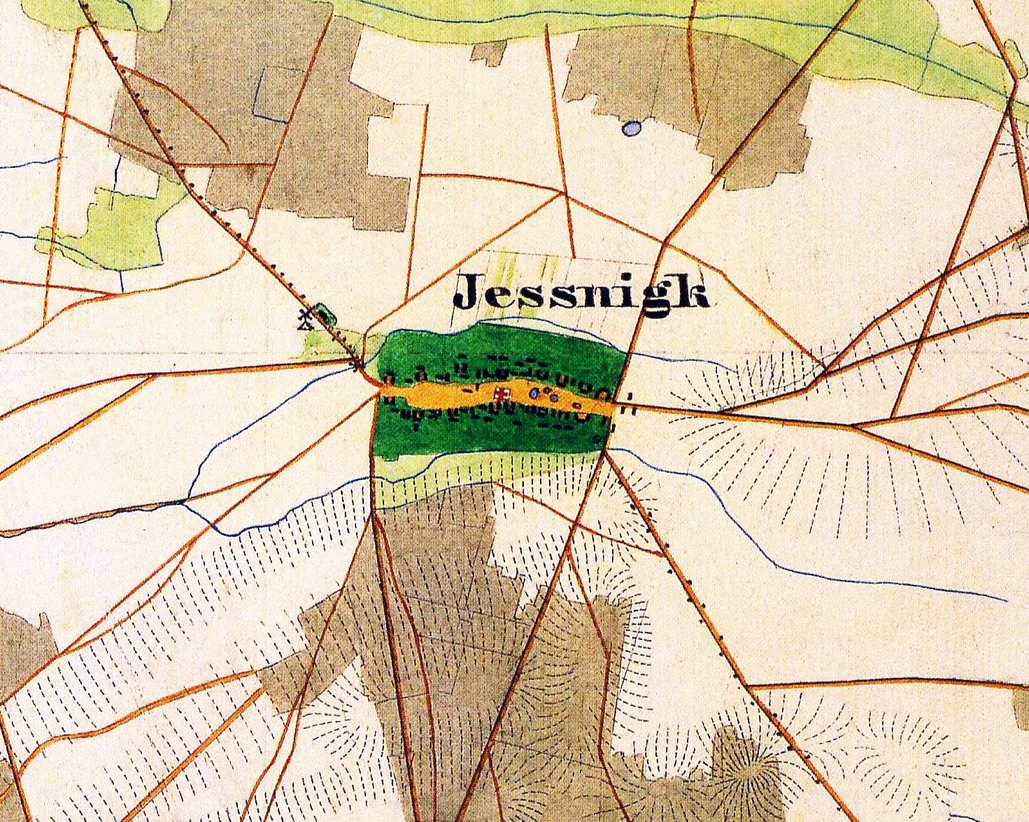 Jeßnigk, Lkr. Elbe-Elster, Brandenburg, Germany, detail from the Urmesstischblatt Sheet 4245 Kolochau, drawn in 1847